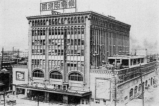 Shinkeihan Railway Tenjin-Bashi Station